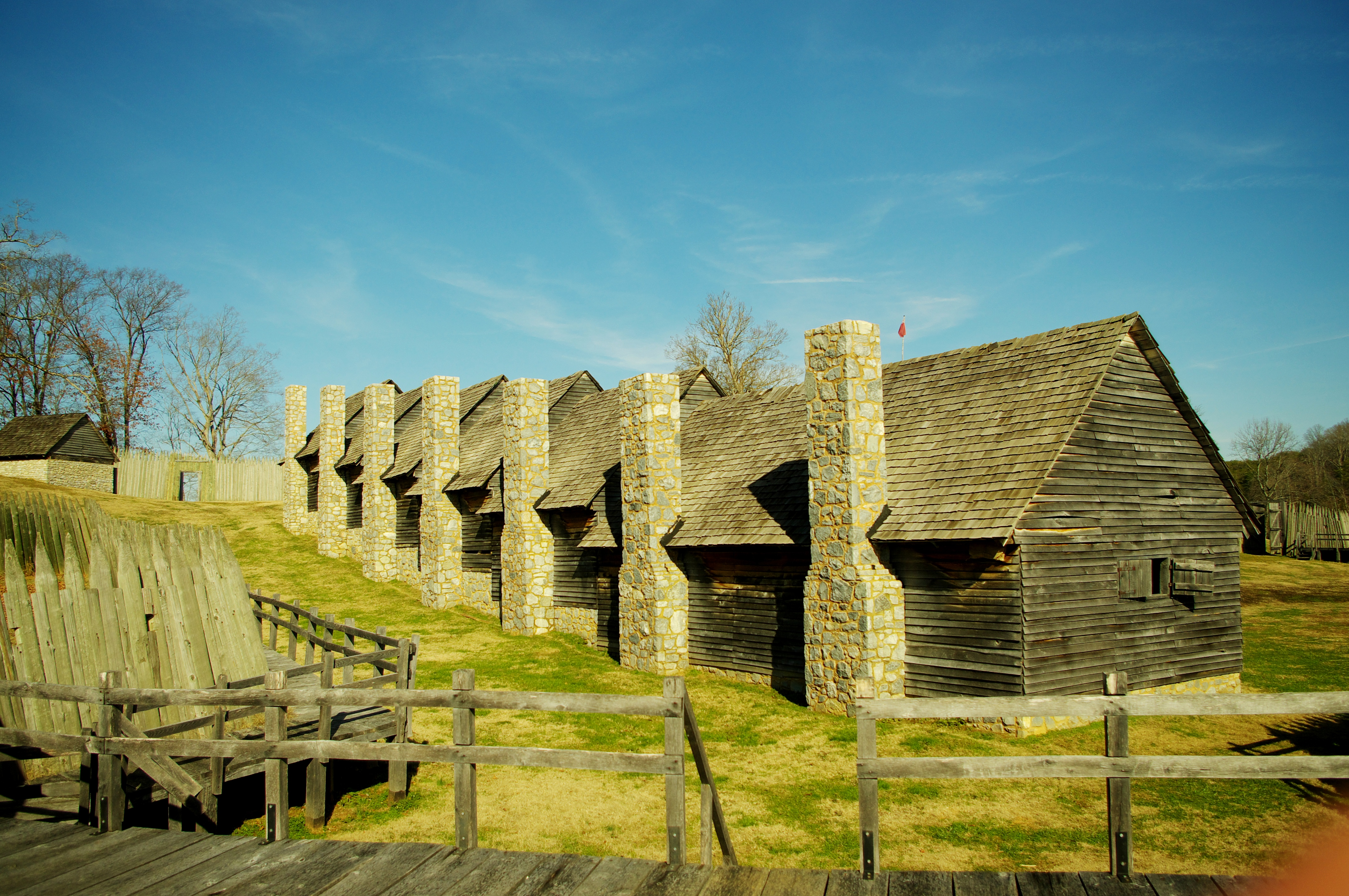 Barracks at the reconstructed Fort Loudoun in Monroe County, Tennessee, United States.